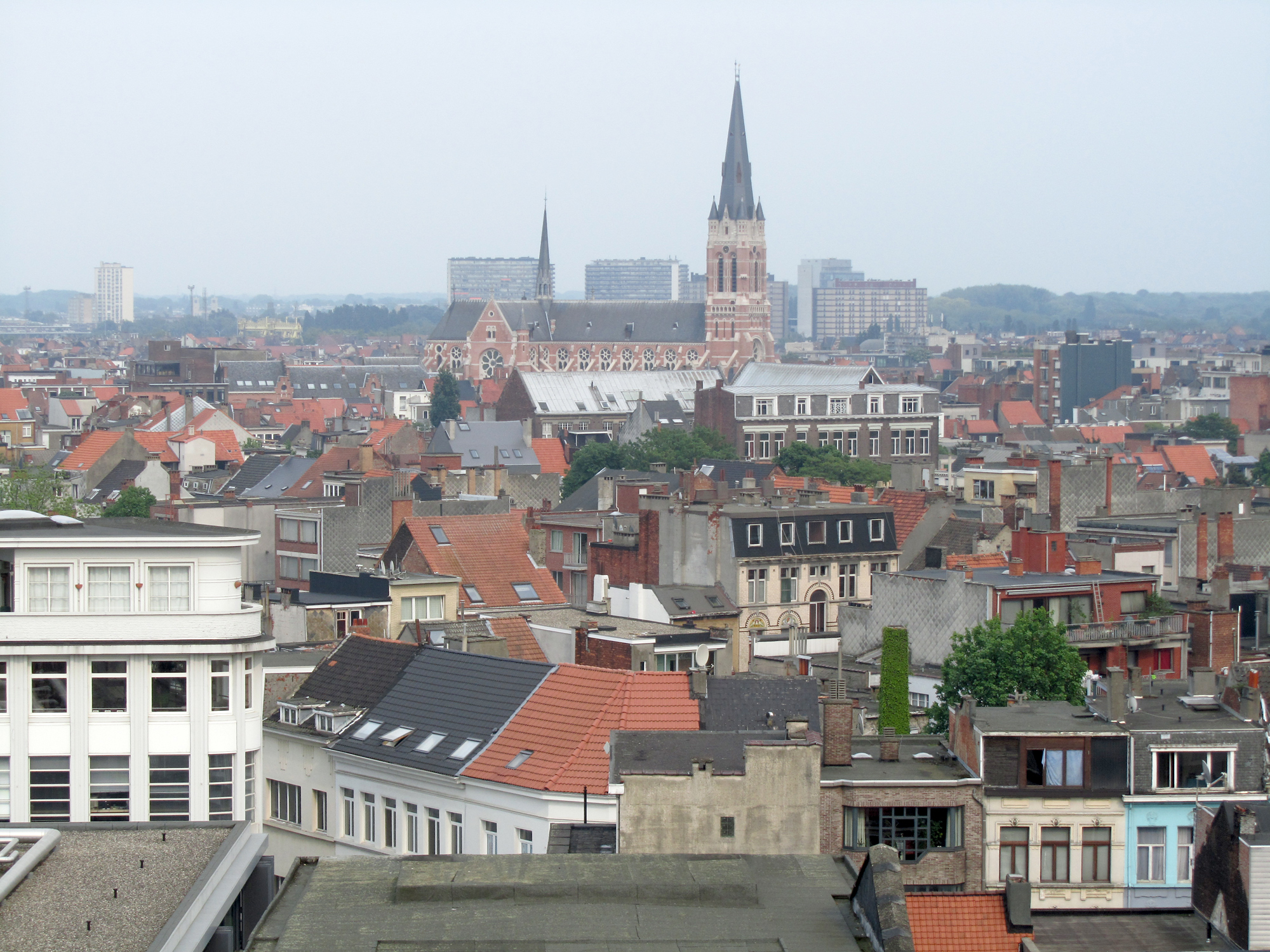 View of Antwerp, looking south from the Radisson Blu hotel on Astridplein towards Sint-Willibrorduskerk.